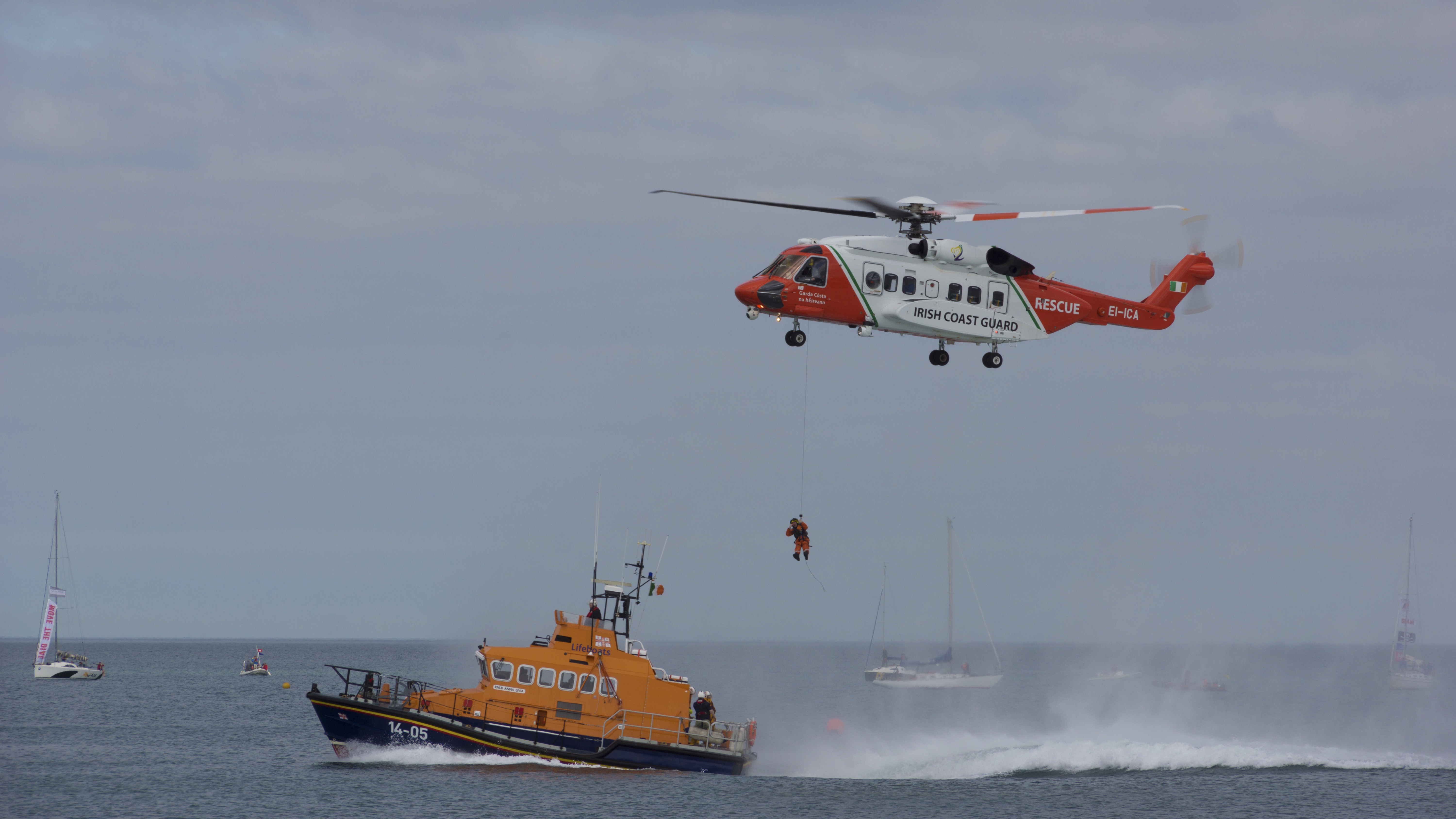 Irish Coast Guard Sikorsky S-92